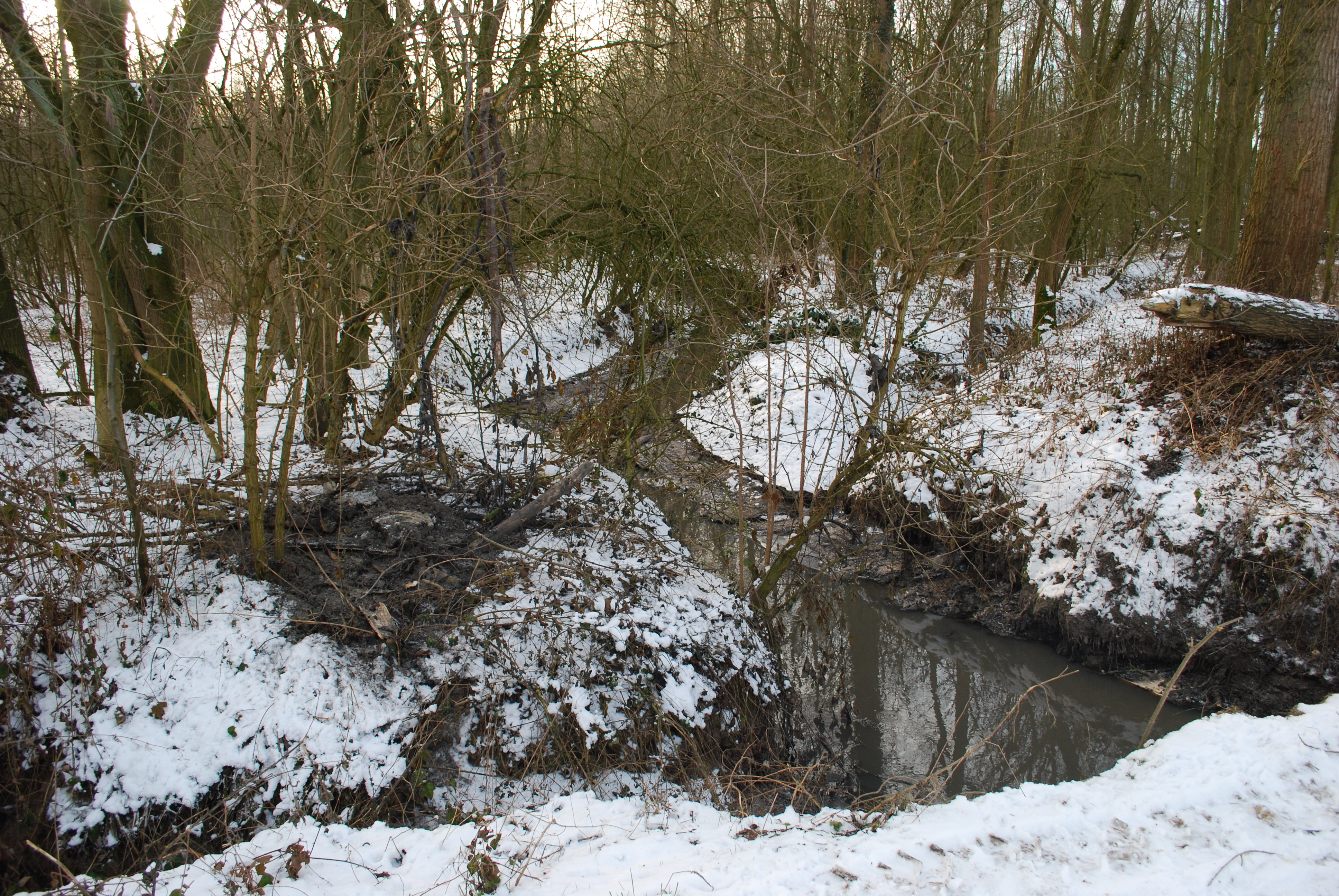 The Maalbeek creek at the Beverbos natural reserve on the border between the Belgian communes of Meise and Strombeek-Bever. Nikon D60 f=18mm f/5.6 at 1/125s ISO 200.